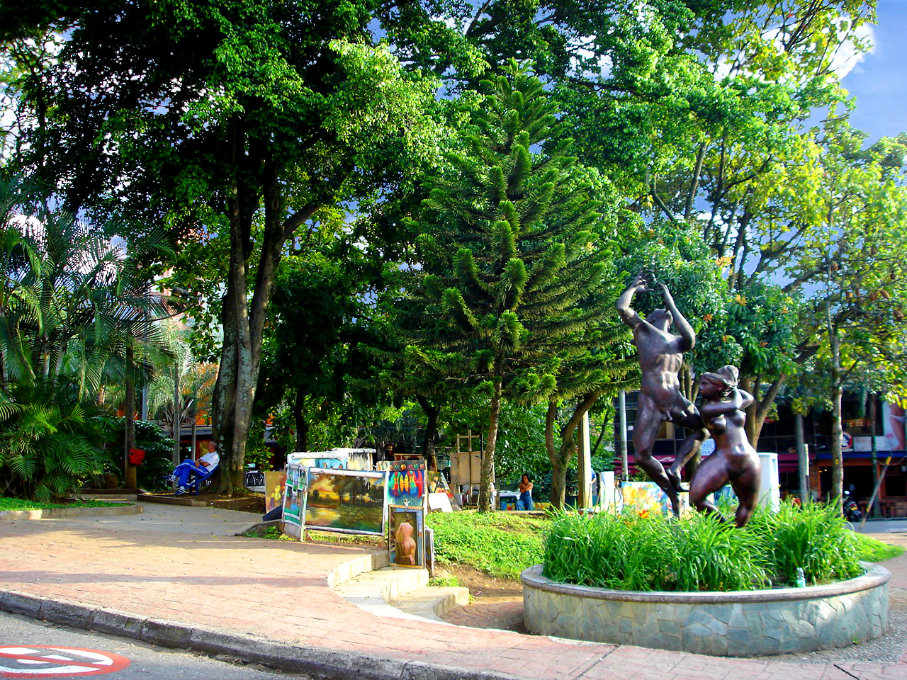 Taken by uploader